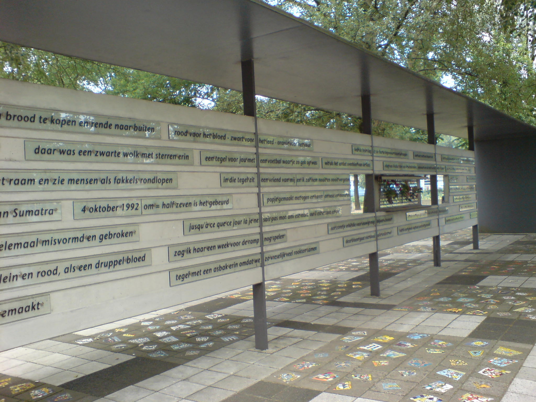 Monument for the Bijlmerdisaster, oct. 4, 1992, Amsterdam, The Netherlands. The monument is designed by architect Herman Hertzberger together with survivers